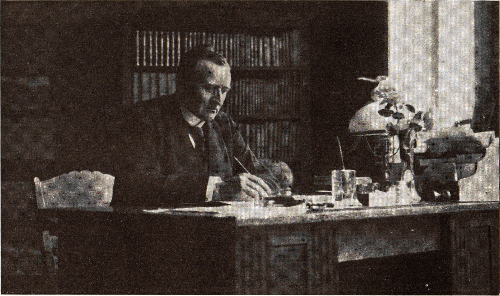 Janne Nyrén at his workoffice